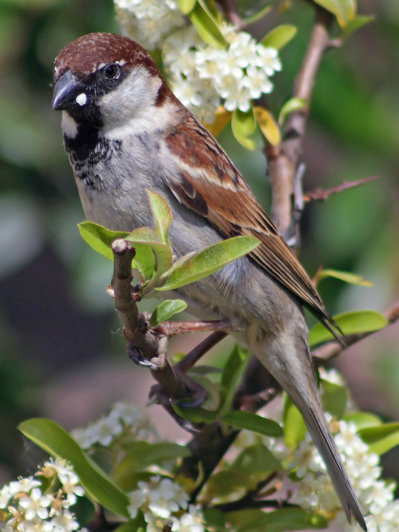 Male Italian Sparrow (Passer italiae). Montecatini Terme, Tuscany.